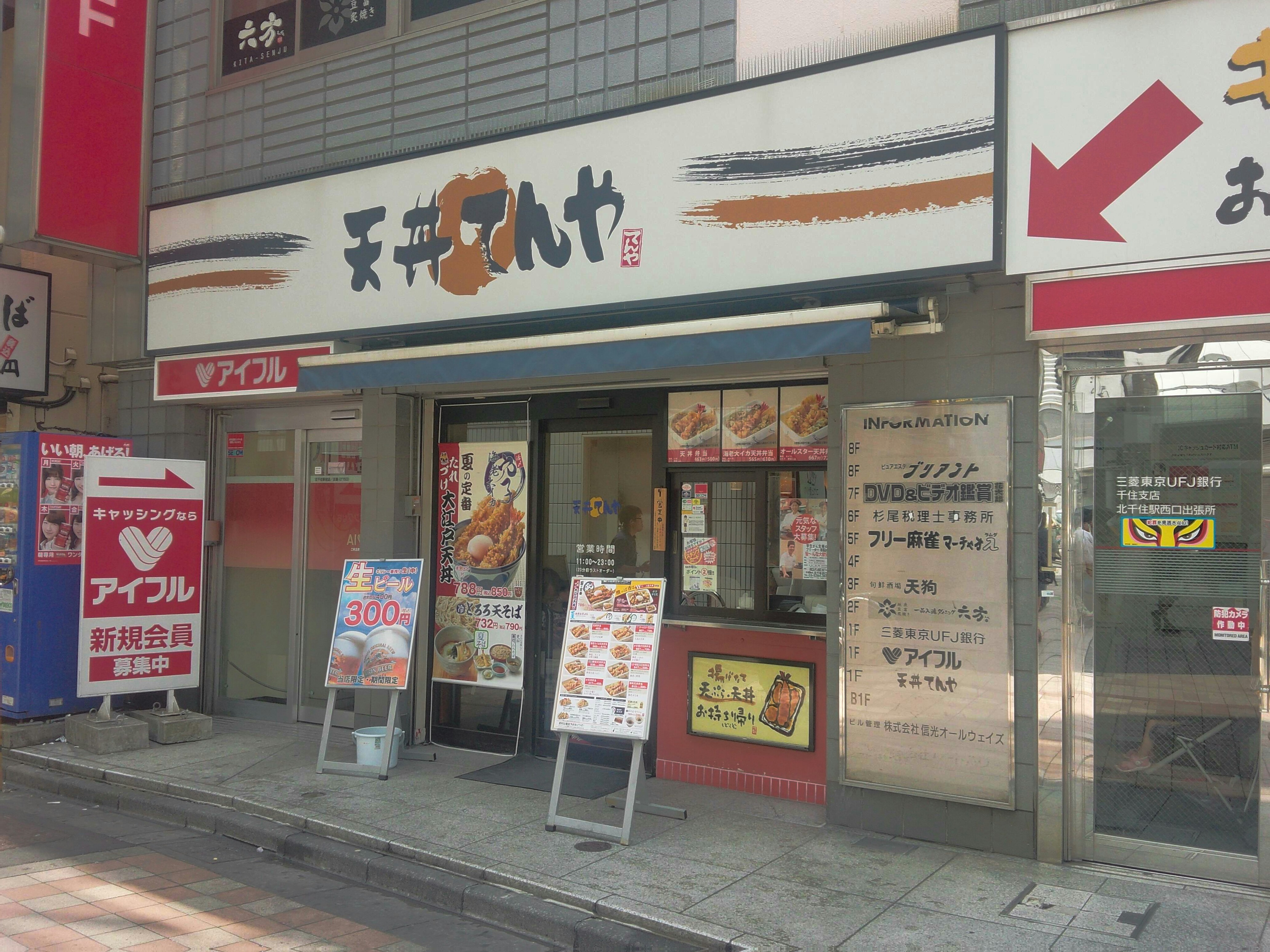 Tendon Ten'ya (天丼てんや) Kitasenju Nishiguchi Shop, located at 2-62-9 Senju, Adachi, Tokyo, Japan